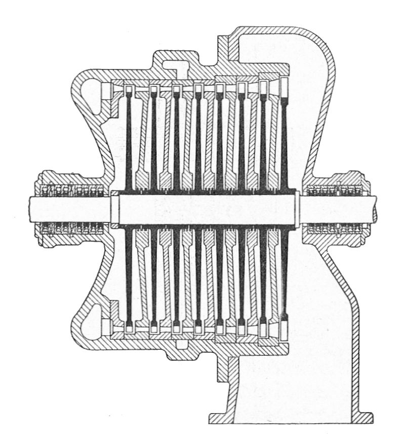 Zoelly turbine, section (Heat Engines, 1913).jpg